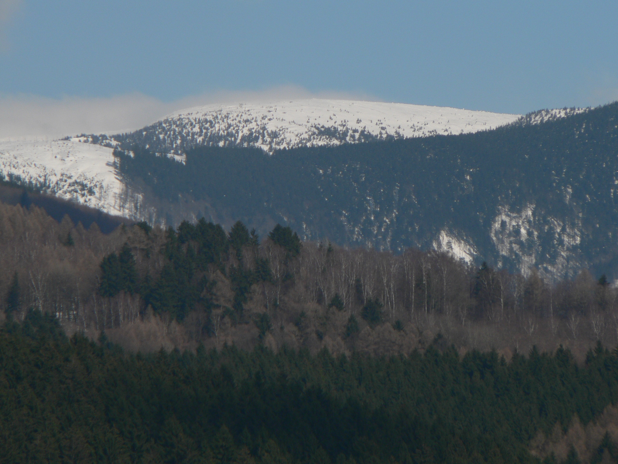 Vysoka hole from south (Sobotin).